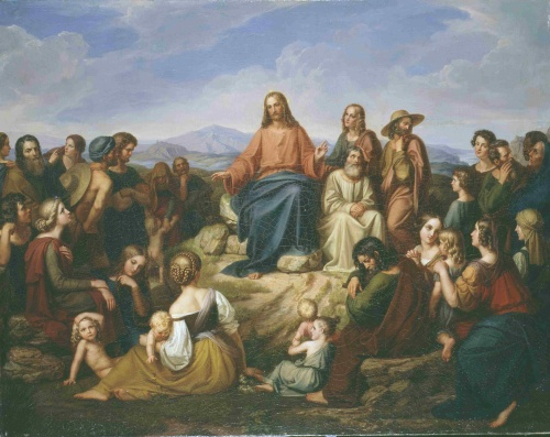 De Bergrede